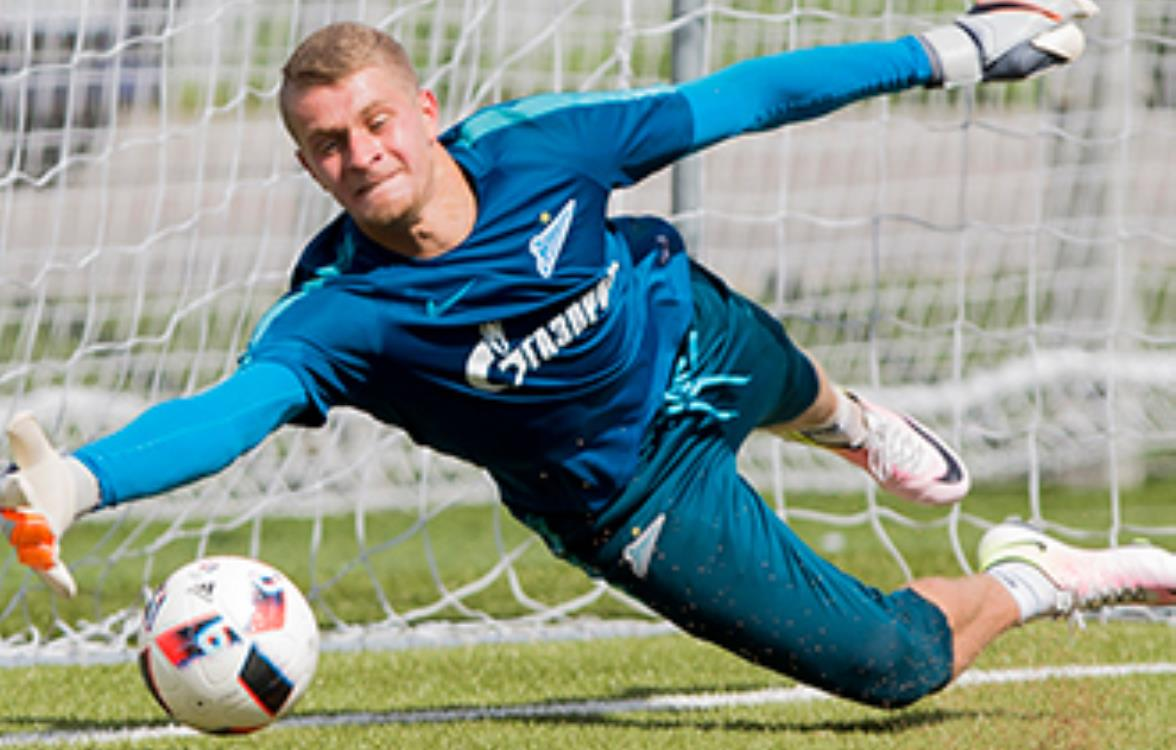 Aleksandr Vasyutin in Zenit-2, 2016.